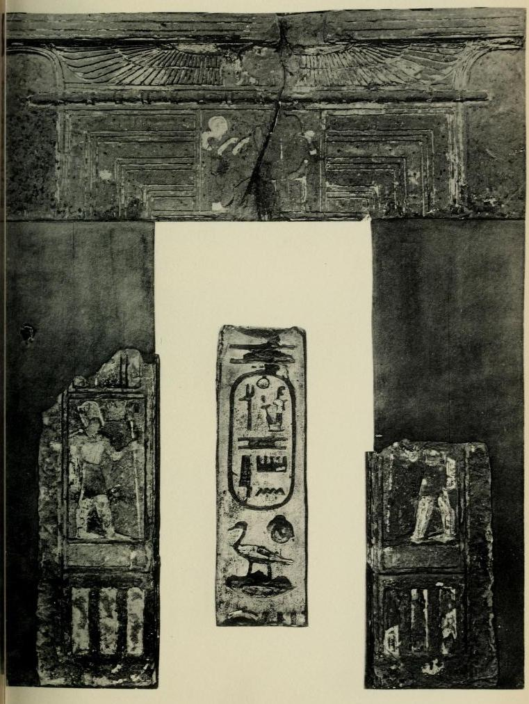 Doorway at Medinet Habu showing location of Ramesses III prisoner tiles Georges Émile Jules Daressy, 1911, Plaquettes émaillées de Medinet-Habou, Annales du Service des Antiquités de l'Égypte, volume XI, 49-63 and Pls. I-IV.